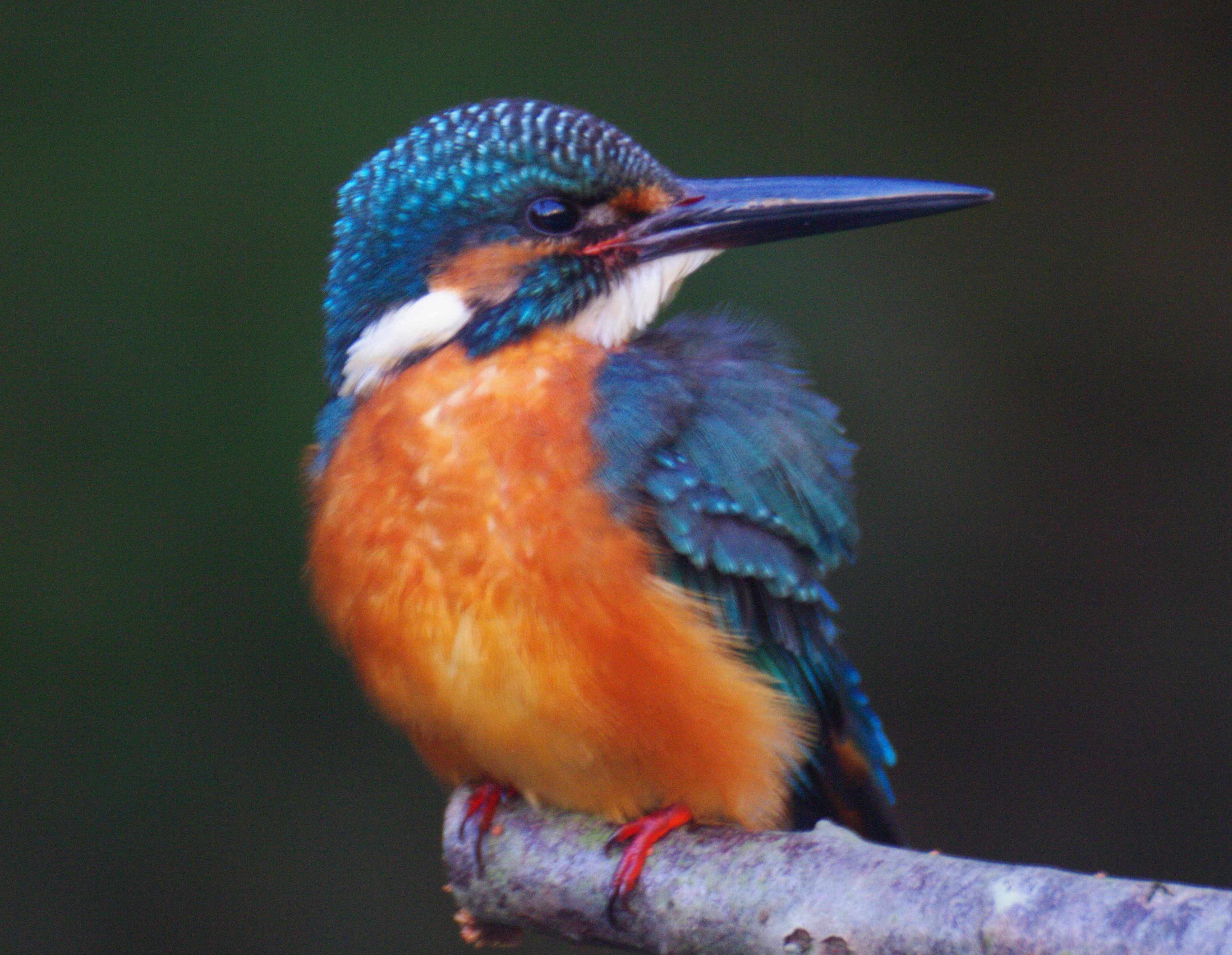 I photograph it in Sakae-word, Yokohama-city itachi River on December 18, 2008.